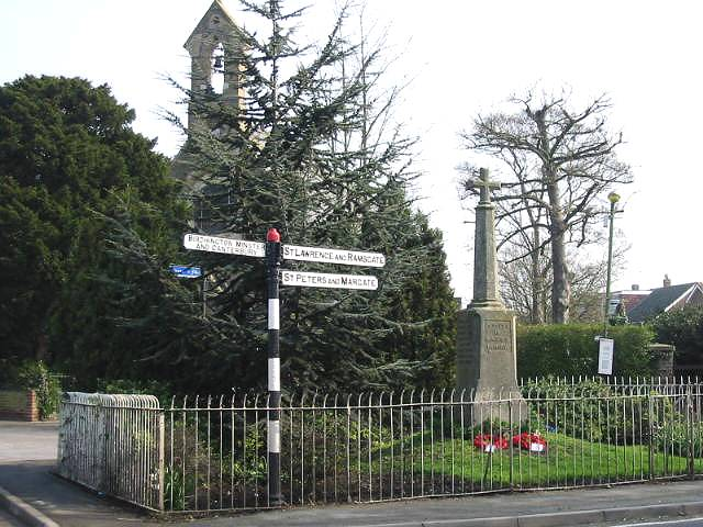 War Memorial and finger post in front of St Catherine's parish church, Manston, Kent